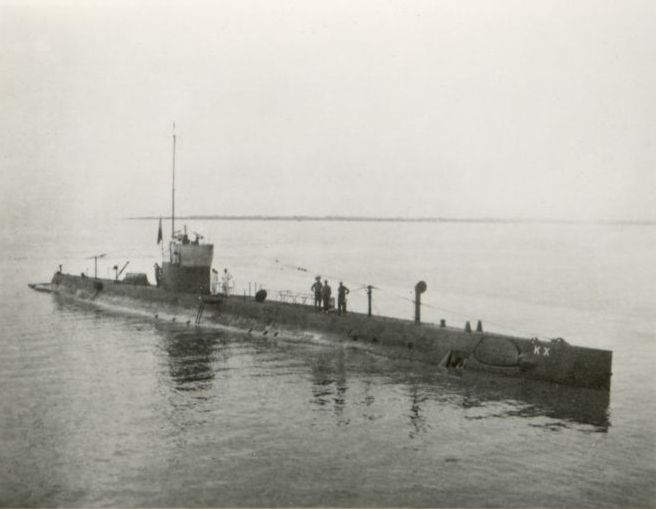 Submarine K X, Soerabaja